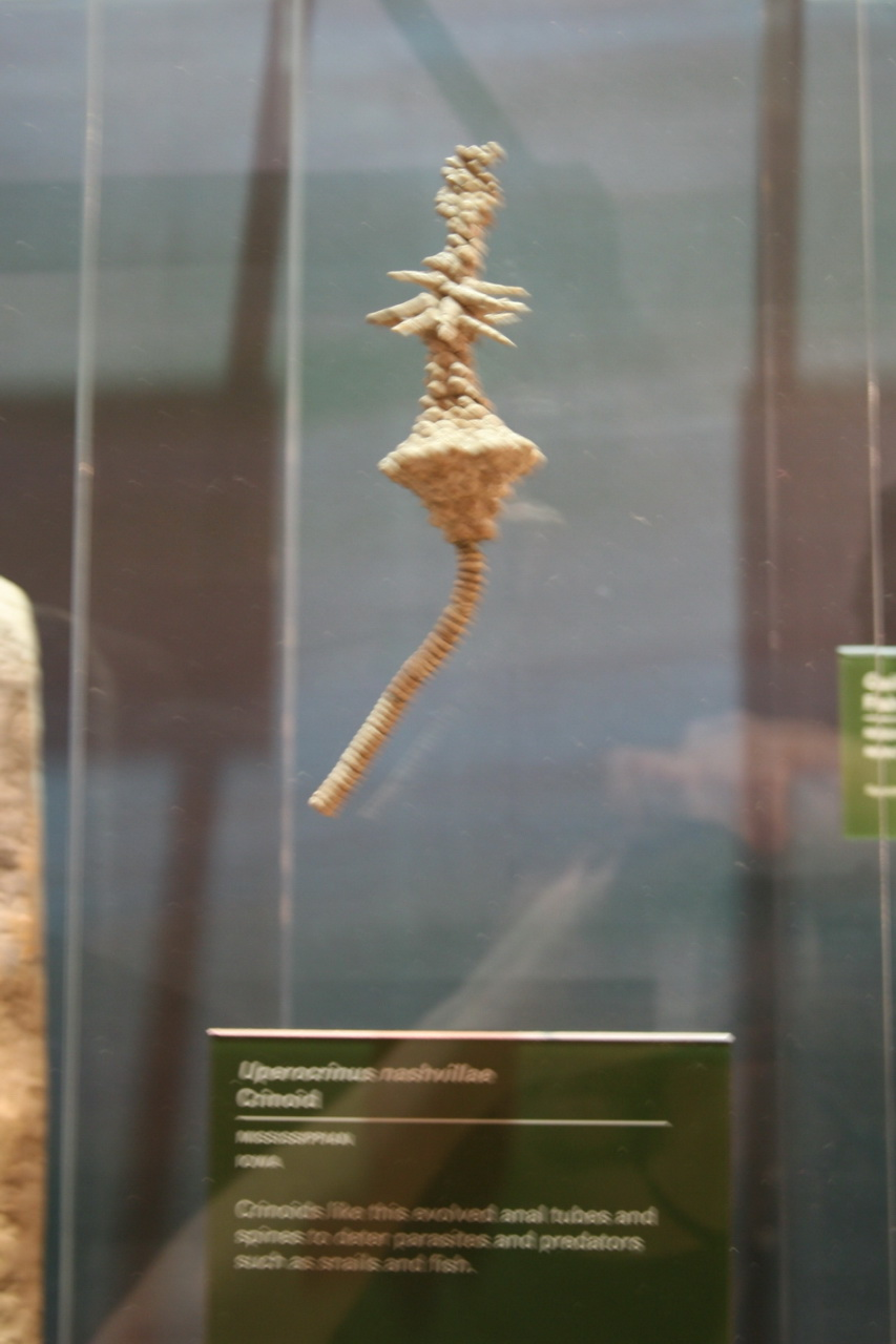 Fossil Uperocrinus nashvillae (Crinoid)